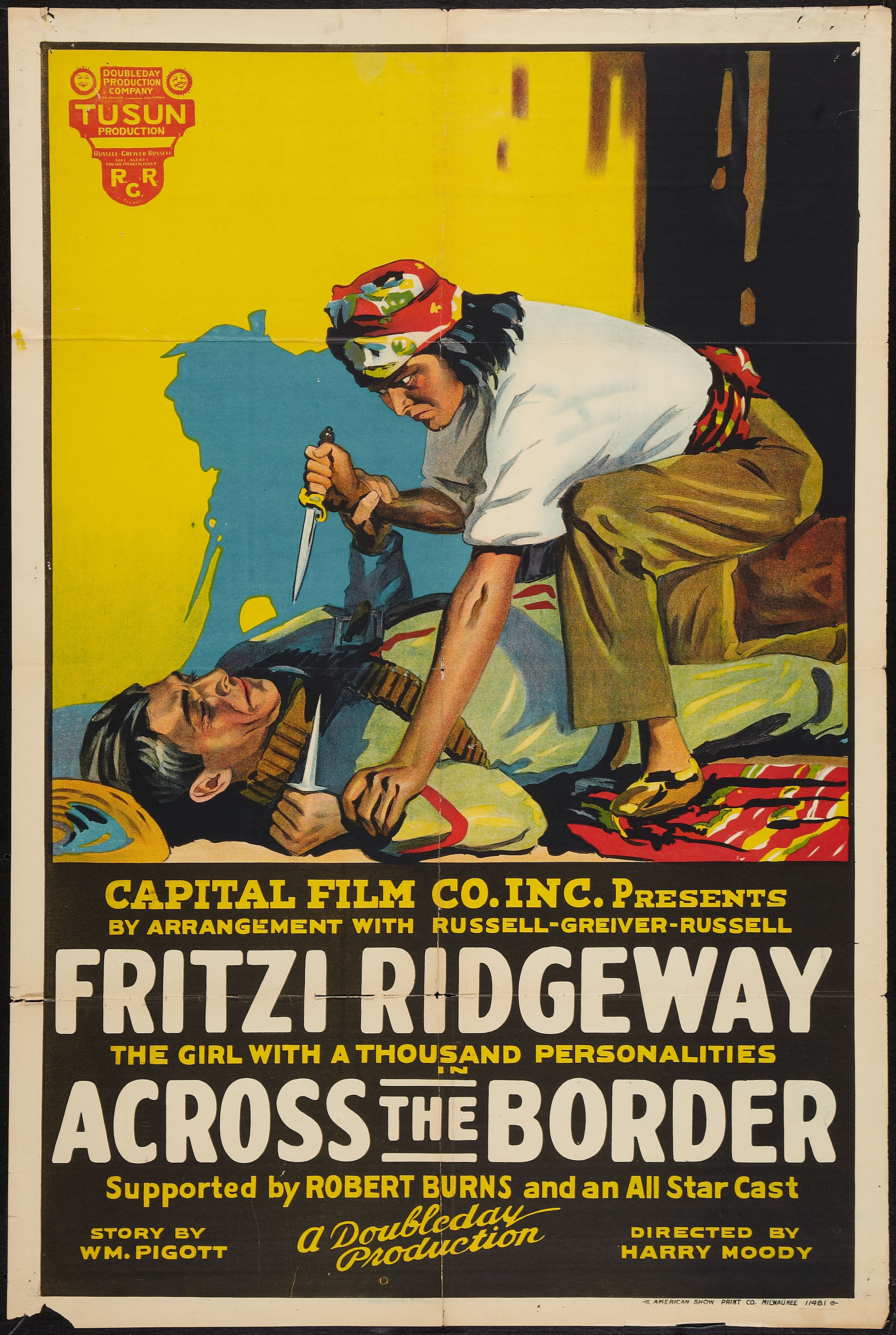 Film poster.